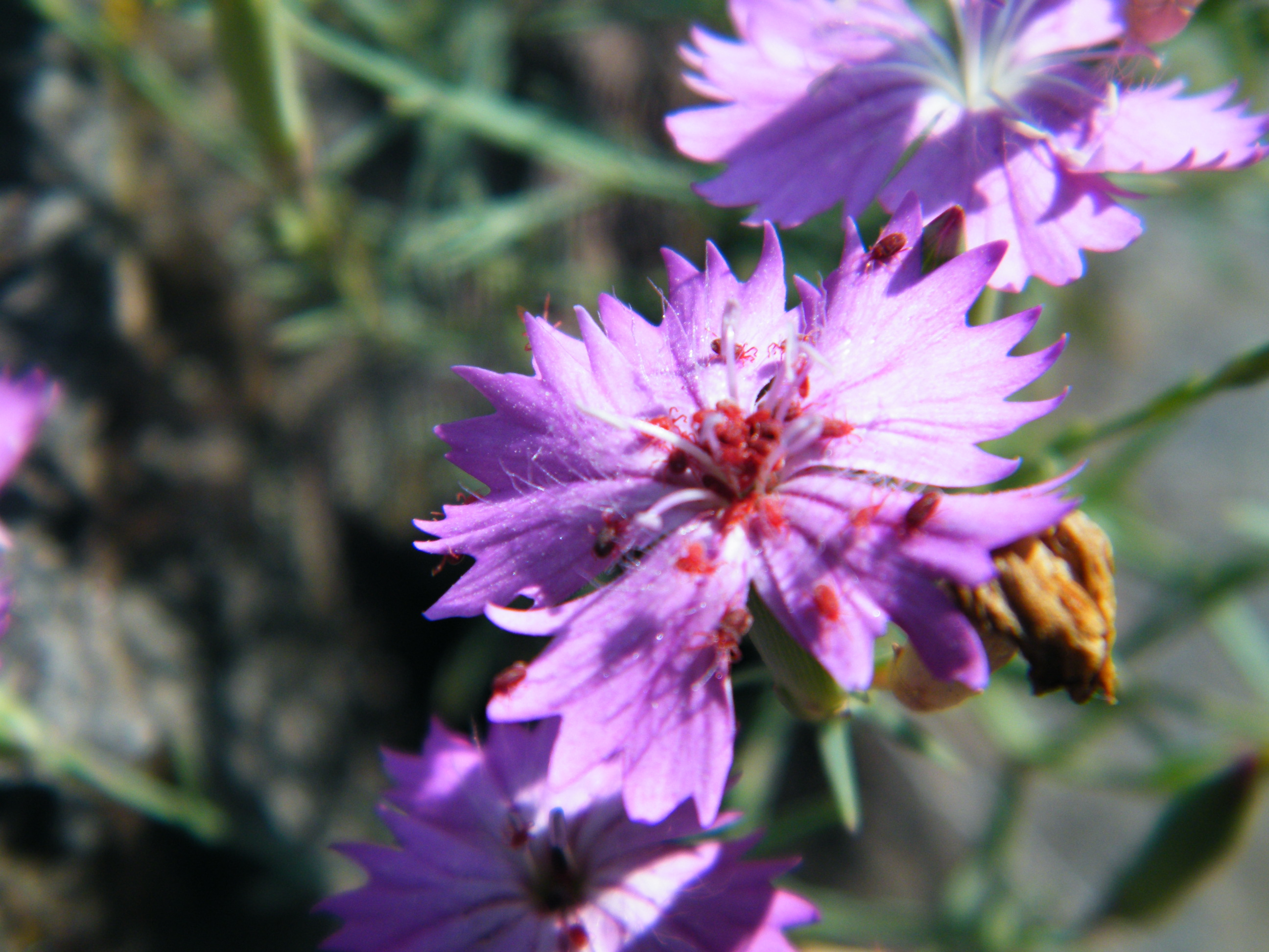 Dianthus hypanicus in Buzkiy Gard